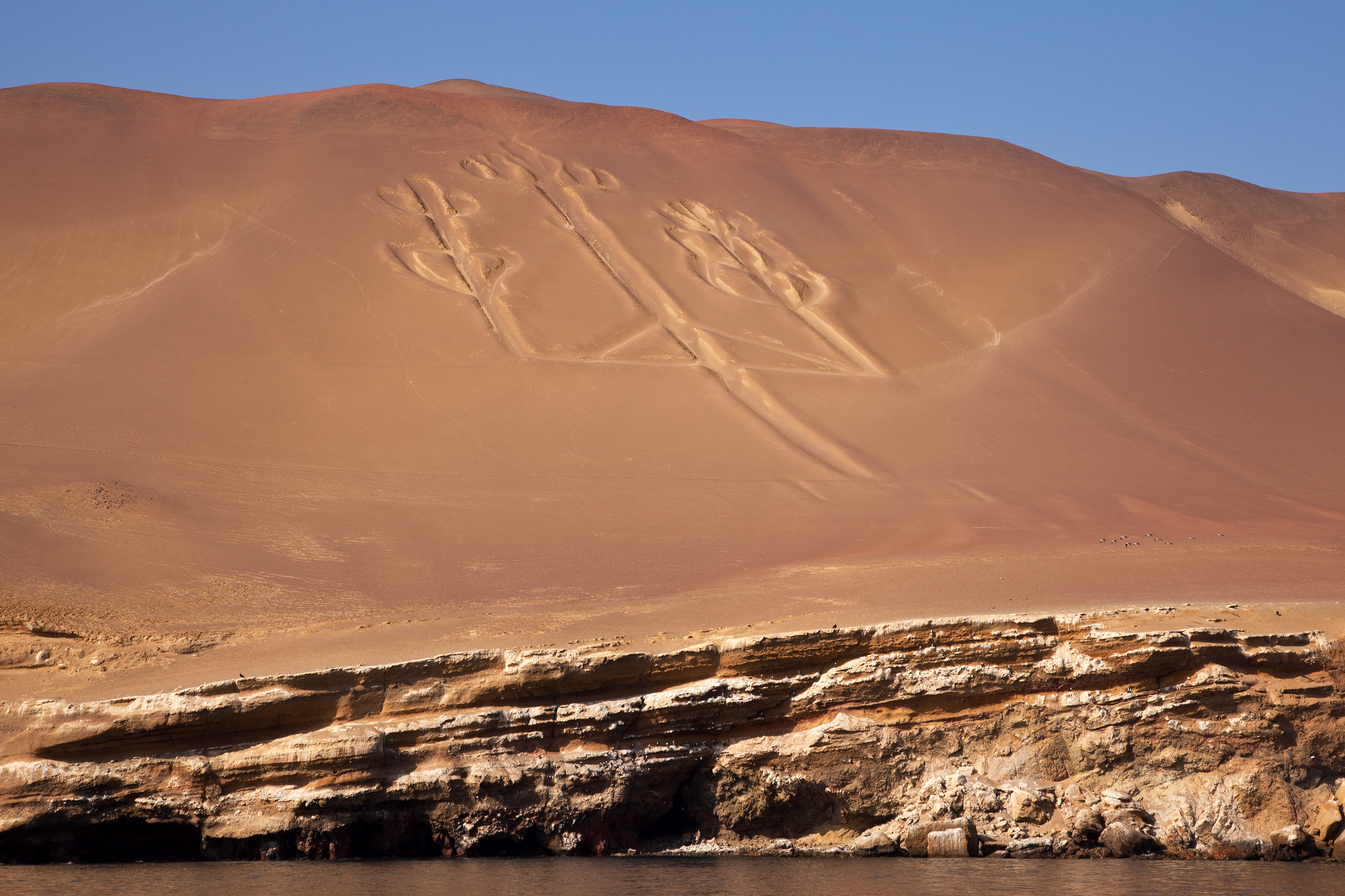 Paracas Candelabra (geoglyph)